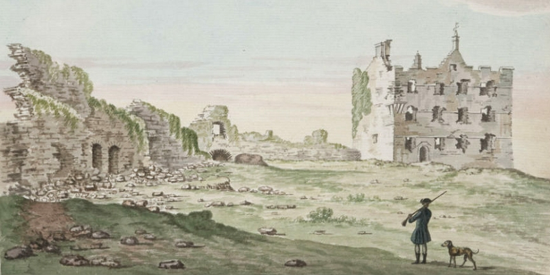 This watercolour of Carrigrohane Castle, County Cork is by Gabriel Beranger (c.1729-1817). A similar image by Jonathan Fisher (d.1809) (without man/dog/colour) is described in the National Libary Catalogue as a view "of the ruined three-storey castle of Carrigrohane, County Cork, Ireland, with bargizan at one corner, string courses near the top of the windows, and with further defences to the left", and dated to 1794. This coloured image by Gabriel Beranger is one of a number of sketchings of Ireland's antiquities which were mainly carried out by Gabriel Beranger in the 1770s and 1780s as part of a commission (according to the RIA at least) by William Burton Conyngham.